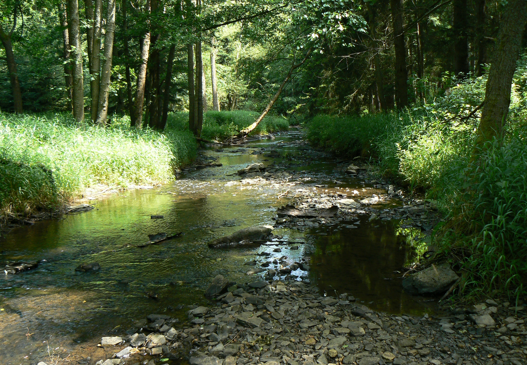 Hadovka stream in nature park Úterský potok, Tachov District in Czech republic